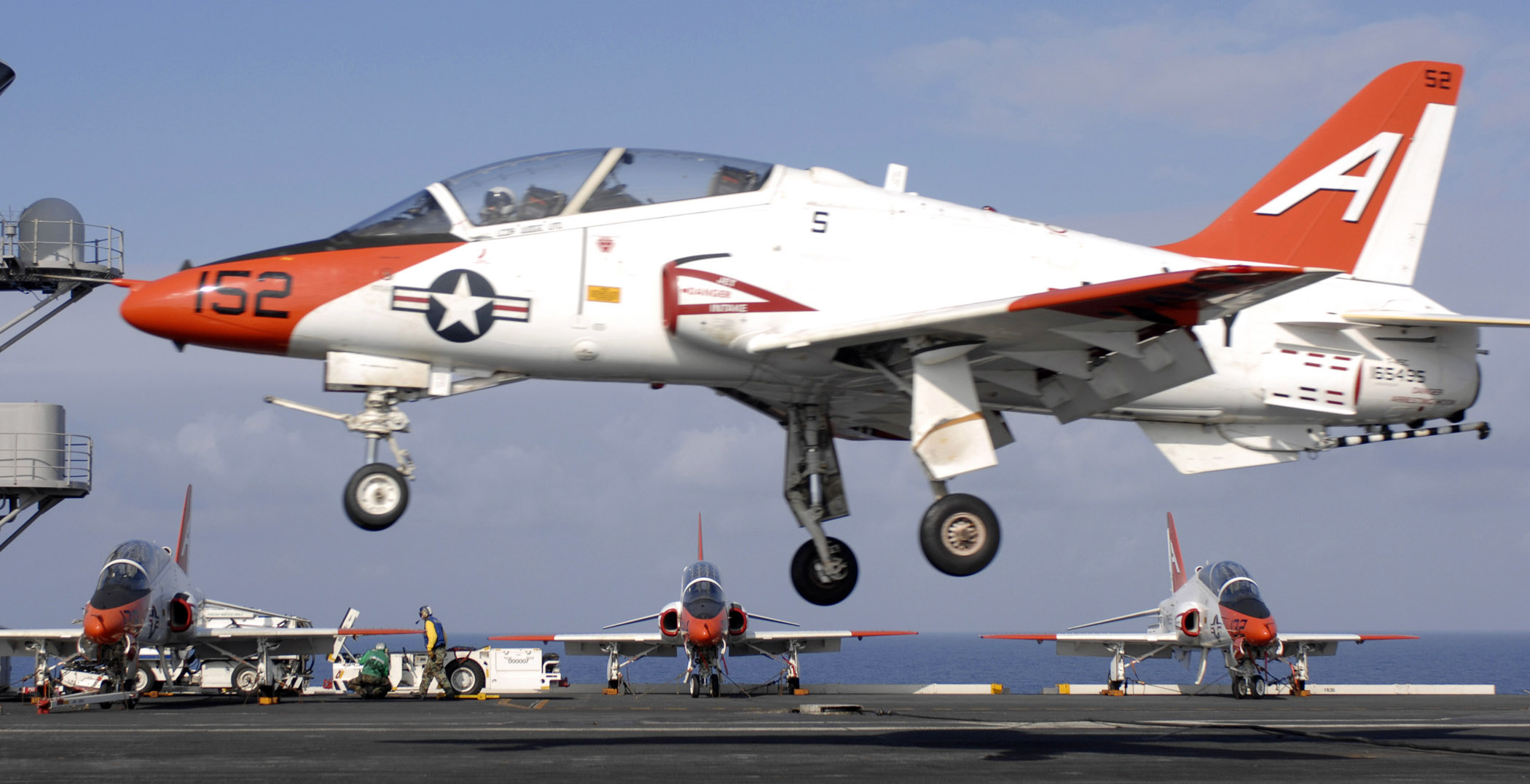 A T-45 Goshawk assigned to Training Airwing One (TRAWING-1) flies by three other chocked-and-chained Goshawks while approaching for an Touch and Go on board Nimitz-class aircraft carrier USS Harry S. Truman (CVN 75). Truman is currently underway conducting operations in the Atlantic Ocean.